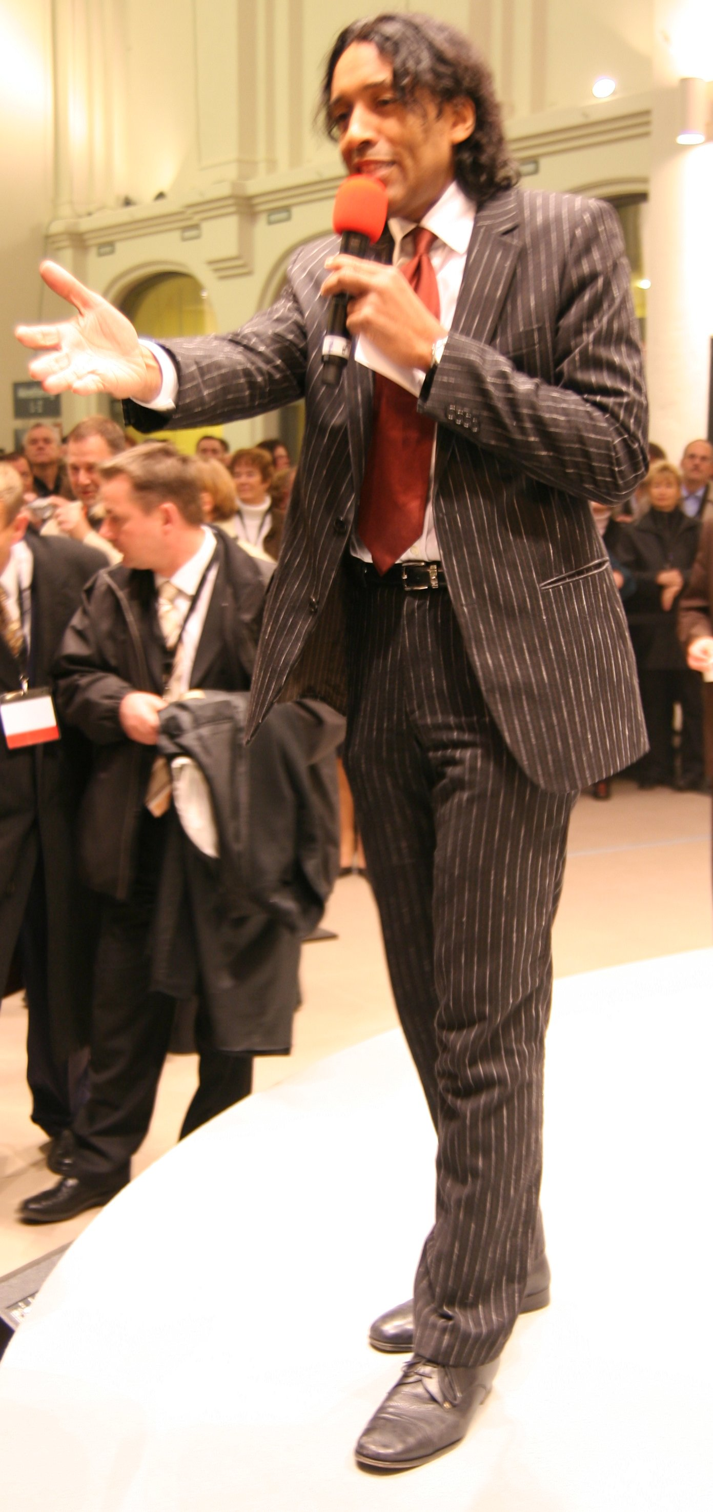 German TV anchorman Cherno Jobatey at the inaugration ceremony of the refurbished central railway station of Dresden